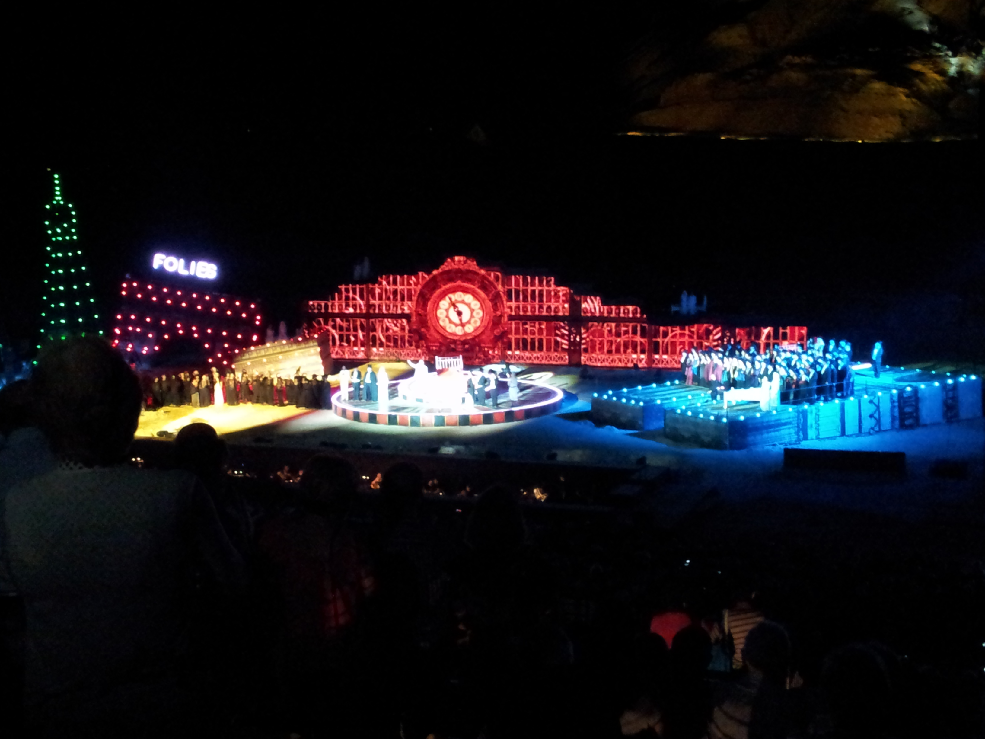 La traviata Opera in Masada 2014